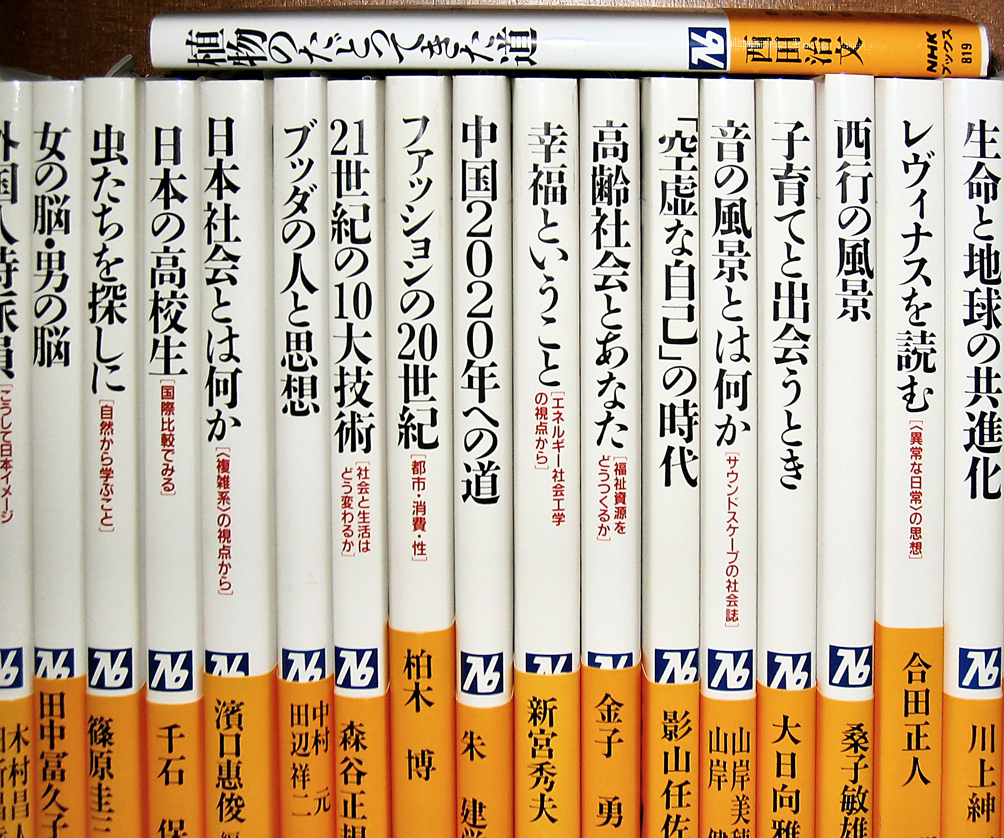 Modern paperback spines of NHK Books in a bookshop, Tokyo.